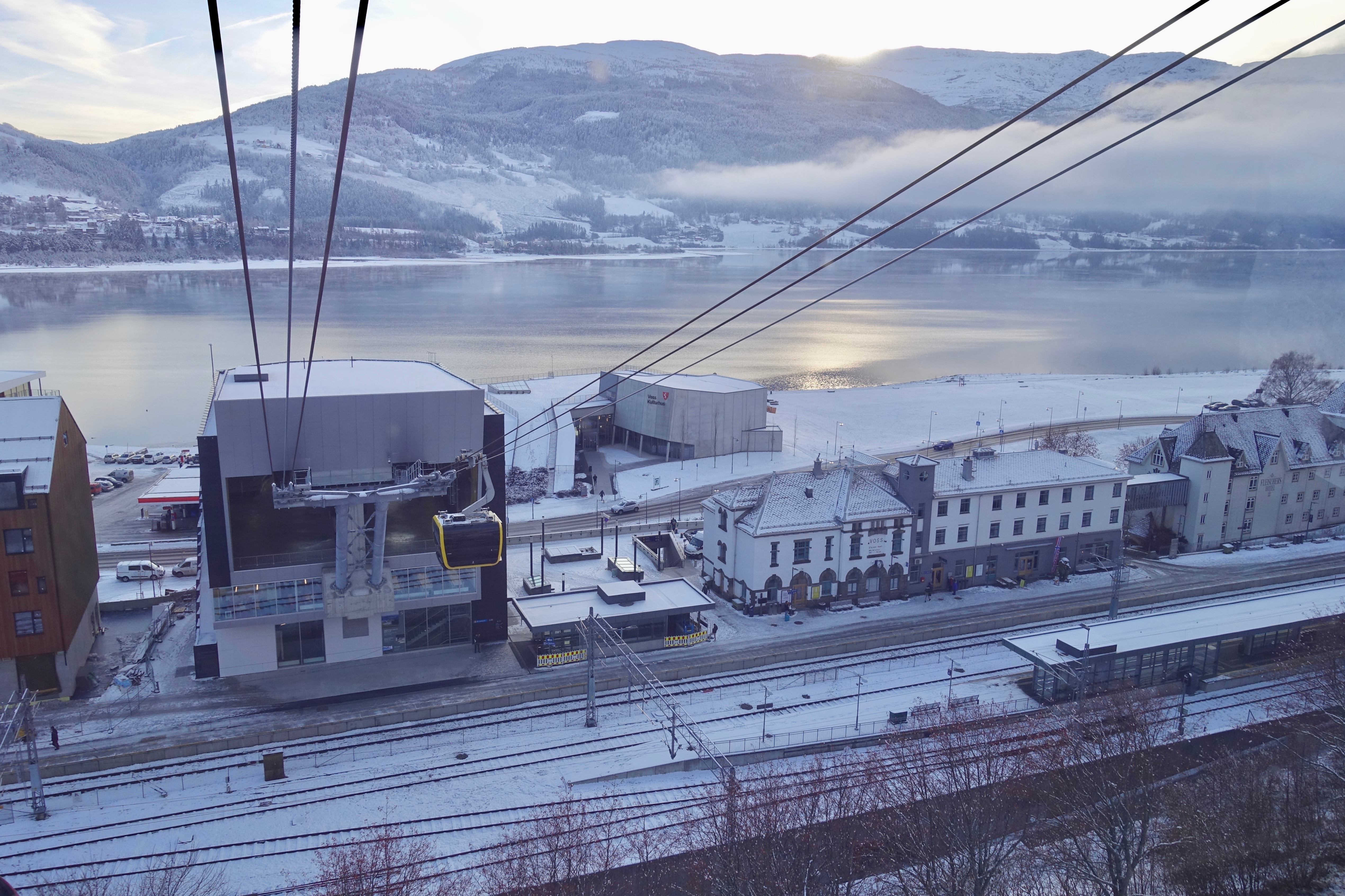 View of the small town of Vossevangen with surrounding valleys, hills and mountains in Voss municipality| in the western part of Norway, seen from a gondola cabin on the Voss Gondol, an aerial passenger lift (gondolheis, taubane, svevebane) opened in 2019. The gondola cableway goes from the Voss Railway Station to the summit, ski resort, and hiking area of the Hangur mountain at 820 metres above sea level, north of the town. The photo shows the lower, bottom station of the cableway at the Trafikknutepunktet, Voss stasjon, Fleischer's Hotel, the European route E16 (Evangerveien), Voss kulturhus, the lake Vangsvatnet etc. The early afternoon sunset colours the snowy landscape red/yellow and blue due to the low sun and long shadows from the mountains. Photo taken on November 20th, 2019.